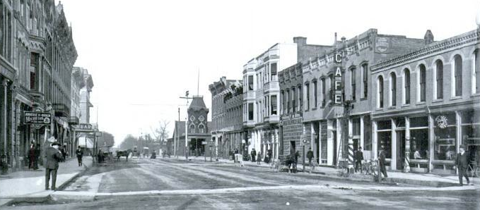 Cheyenne, Wyoming, USA